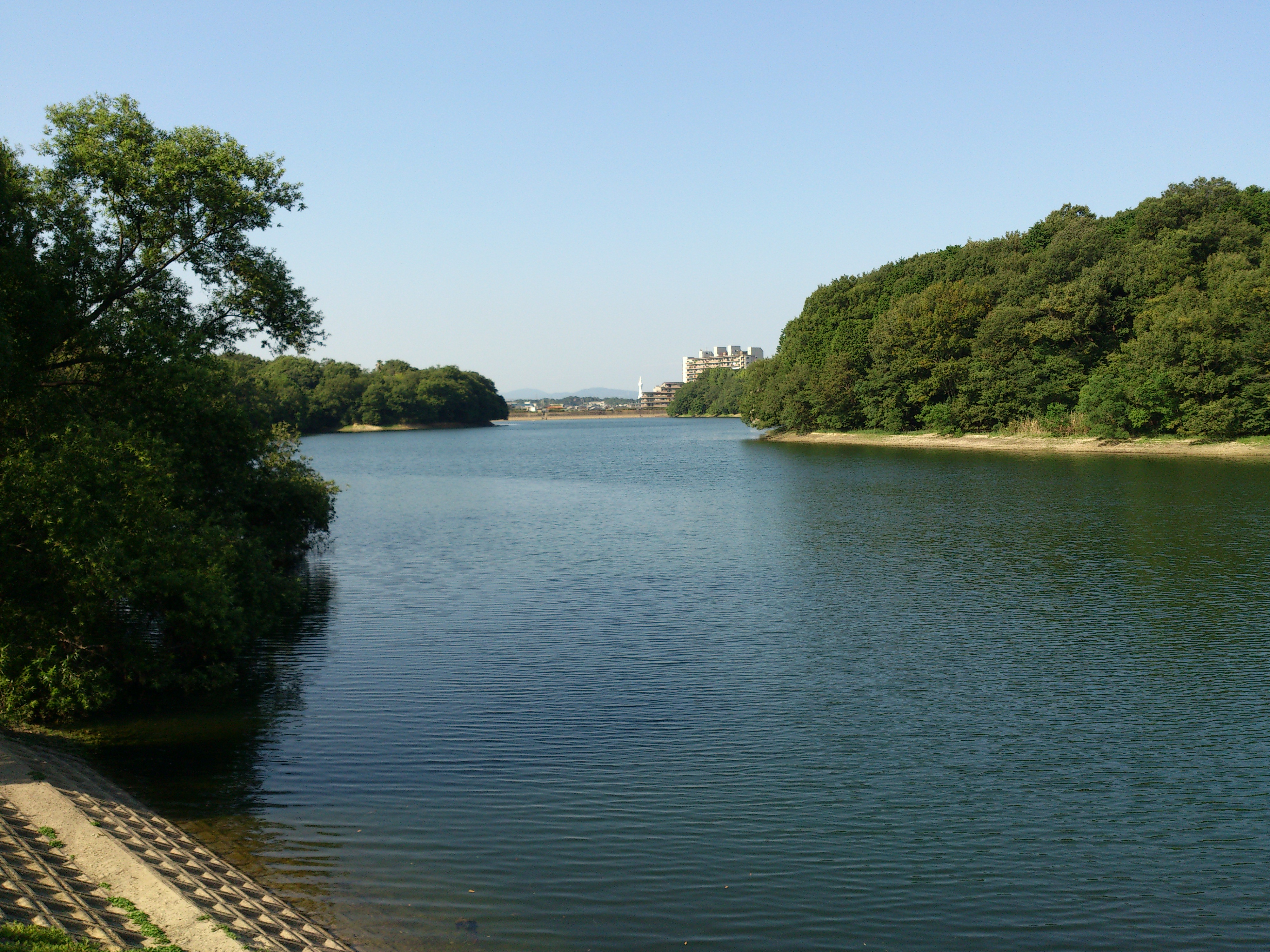 Teragaike